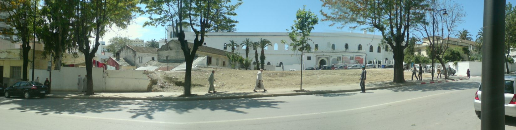 A view of the site of Benchimol Hospital, Tangier, after its demolition.